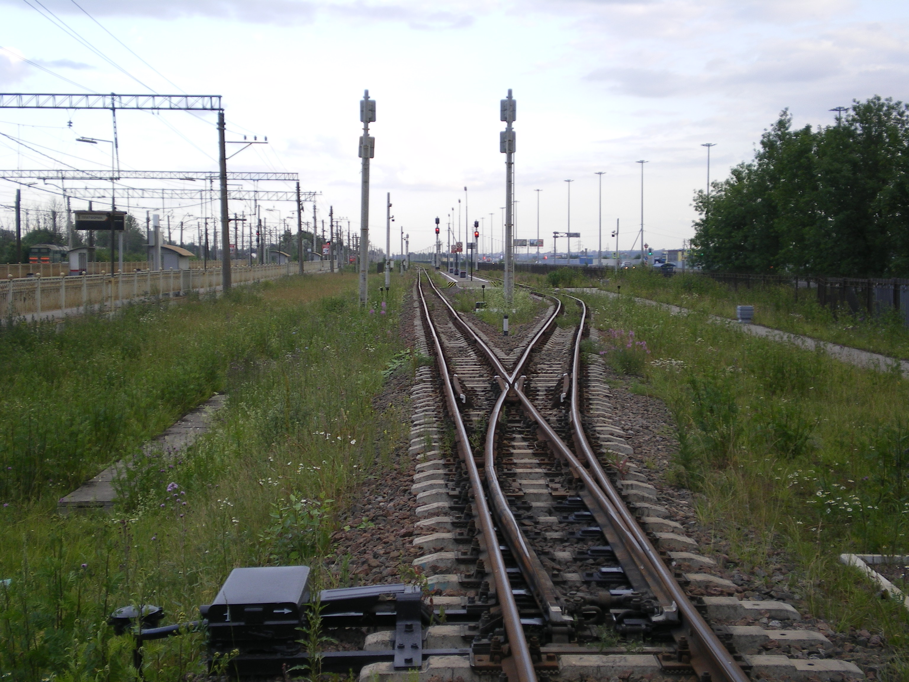 Yuny station at Shushary railway station